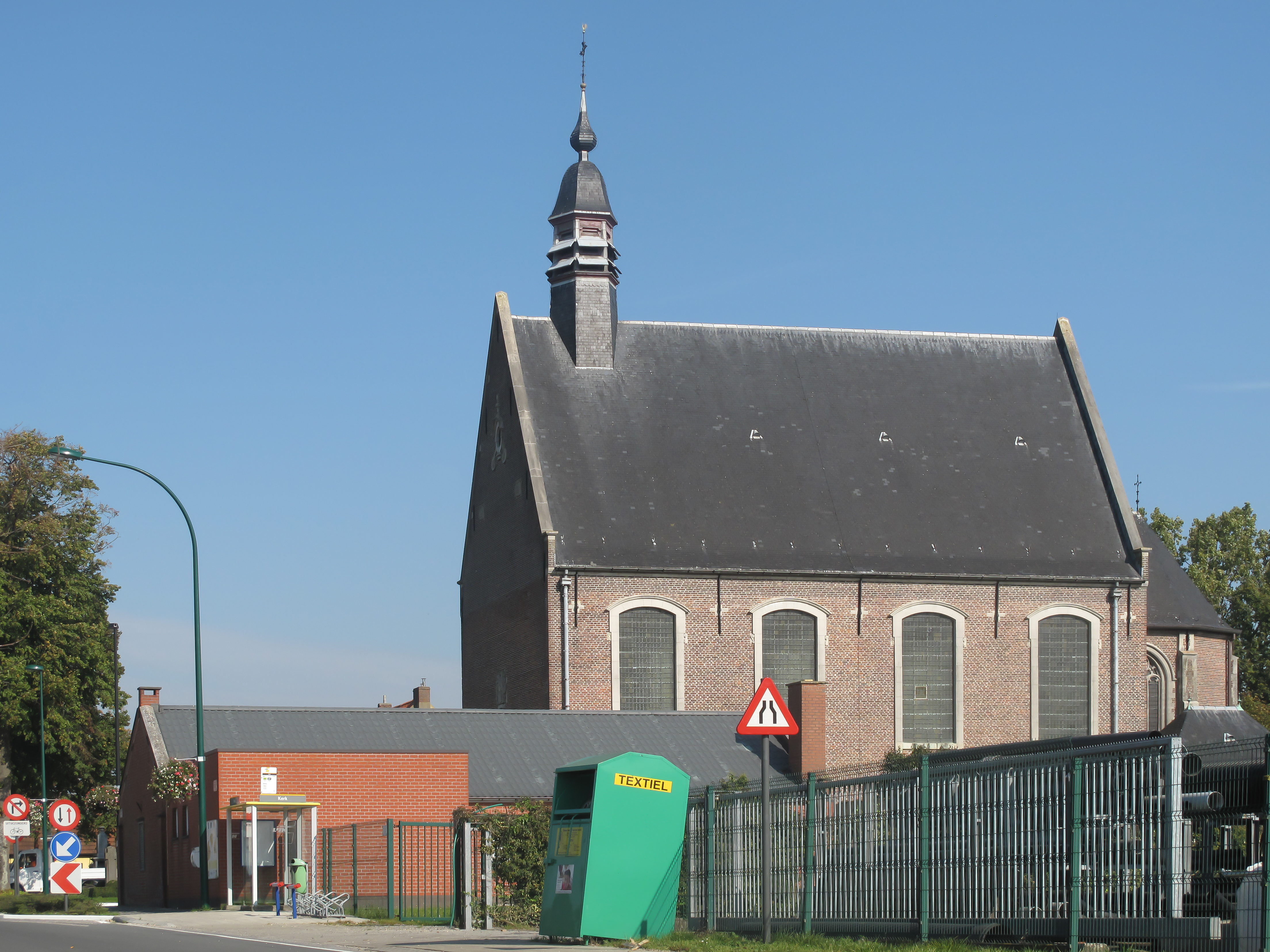 Ronsele, church